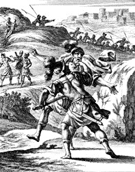 Woodcut of the story from 2 Samuel 20:10